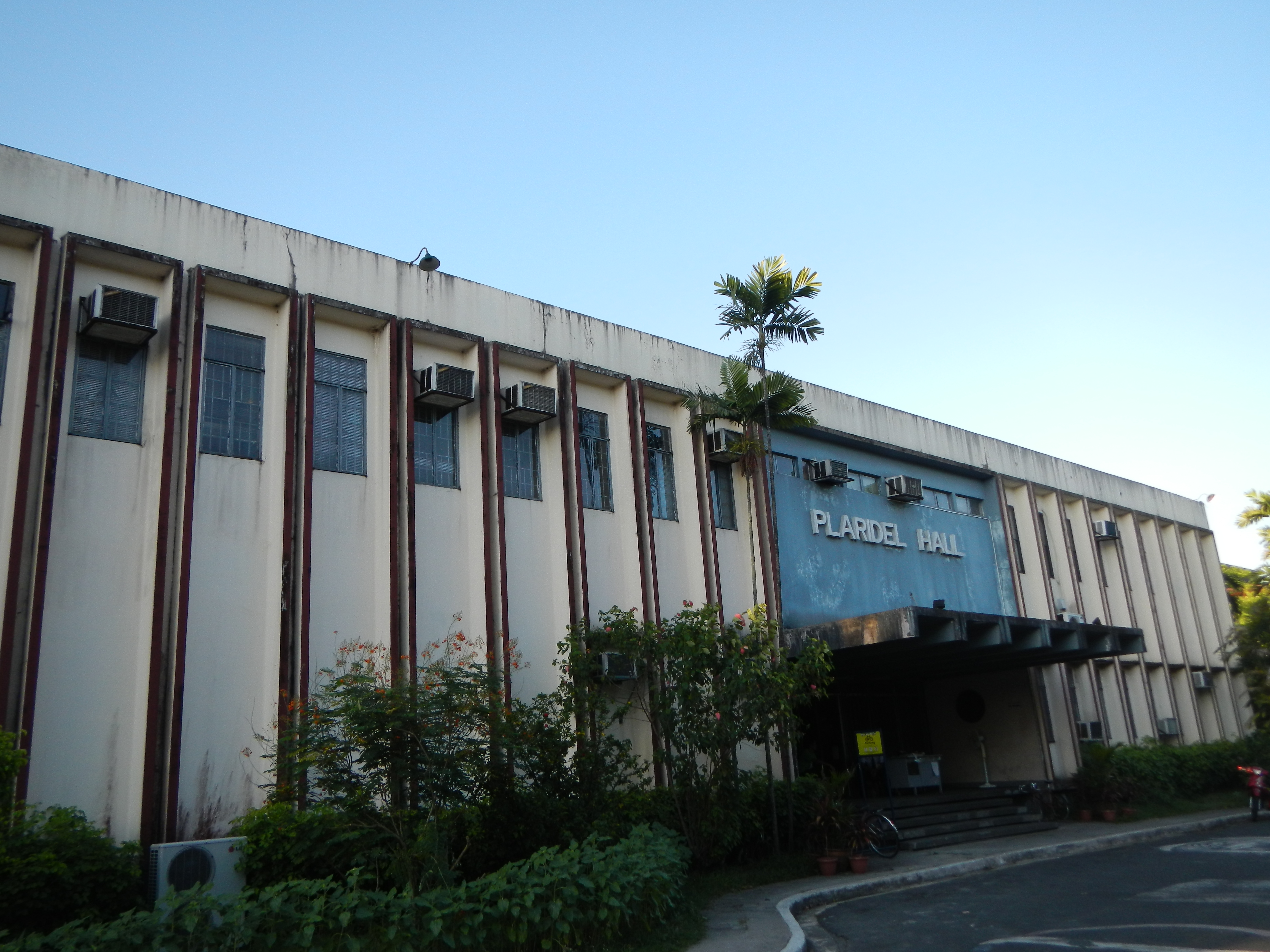 University of the Philippines College of Mass Communication[1]The UP College of Mass Communication or UP CMC is the leading institution in mass media education in the Philippines. Formally established in March 1965 as the Institute of Mass Communication, it is an independent degree-granting unit of the University of the Philippines Diliman, and offers programs in the field of media and communication studies. The college, situated at Plaridel Hall, Ylanan Road, University of the Philippines Diliman, Quezon City, is home to two of the Commission on Higher Education's Centers of Excellence in Communication Education, which are the Departments of Journalism and Communication Research. The Broadcast Communication and the Film departments, meanwhile, are candidates for Centers of Development. After the term of Dr. Elena E. Pernia ended on May 31, 2009, the current Dean of UP CMC is Dr. Rolando B. Tolentino of the Film Institute.[2]Location - Plaridel Hall, University of the Philippines Diliman,[3], Quezon City, Philippines[4] [5] [6]College of Mass Communication, UP is near Ylanan; is near Roxas Avenue; is near T. M. Kalaw Road; is near G. Bernardo; is near Laurel Avenue; is near Don Placido; is near Pardo De Tavera; is near Village B; College of Mass Communication, UP is geographically located at latitude(14.6566 degrees) 14° 39' 23" North of the Equator and longitude (121.0643 degrees) 121° 3' 51" East of the Prime Meridian on the Map of Manila.